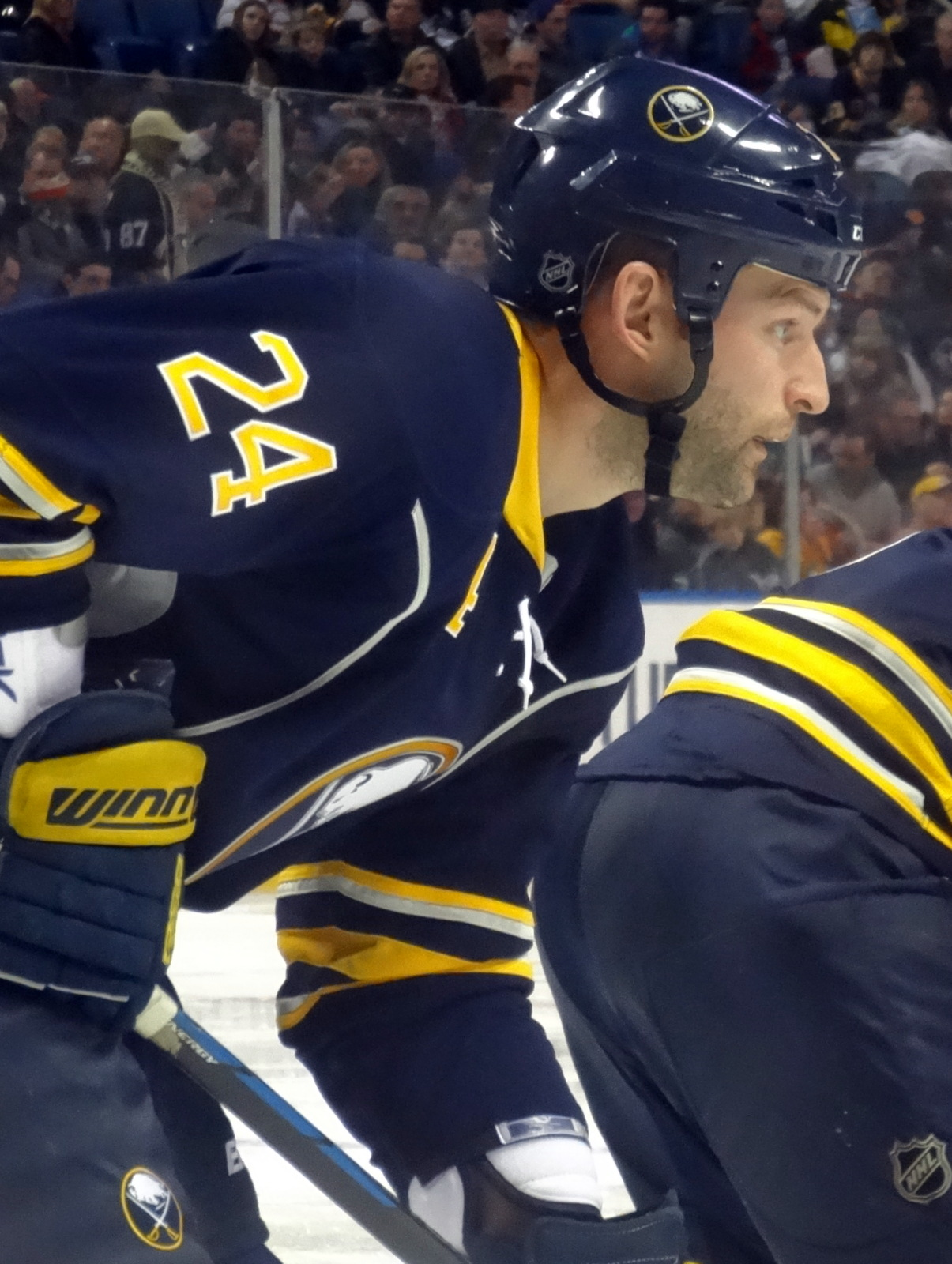 Buffalo Sabres defenseman Robyn Regehr skates against the Pittsburgh Penguins, February 17, 2013 at First Niagara Center in Buffalo, NY.